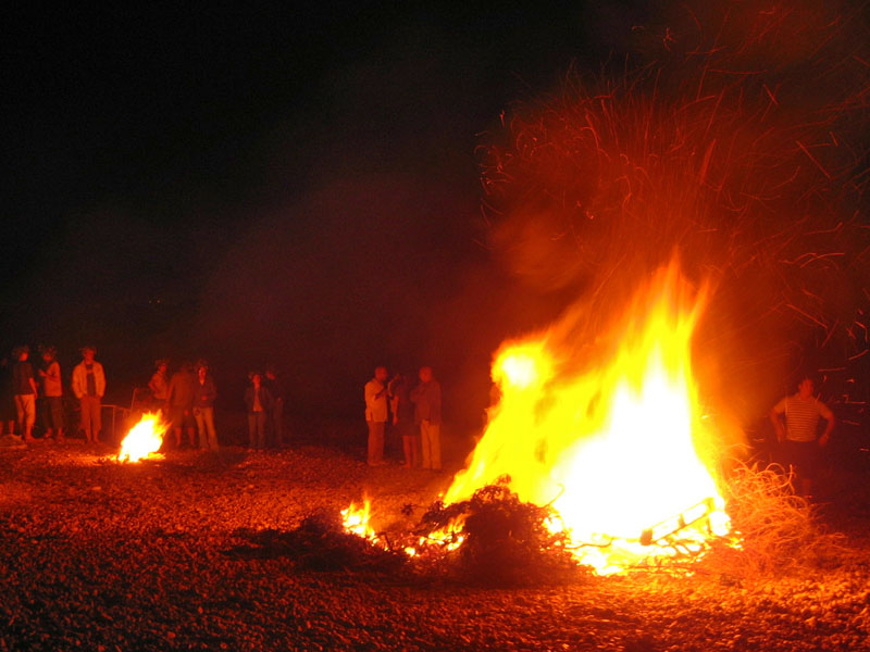 A bonfire at Almadrava beach on Saint John's night 2007, county Marina Alta, Region of Valencia, Spain.